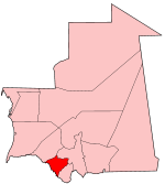 Map of Mauritania showing Gorgol region.